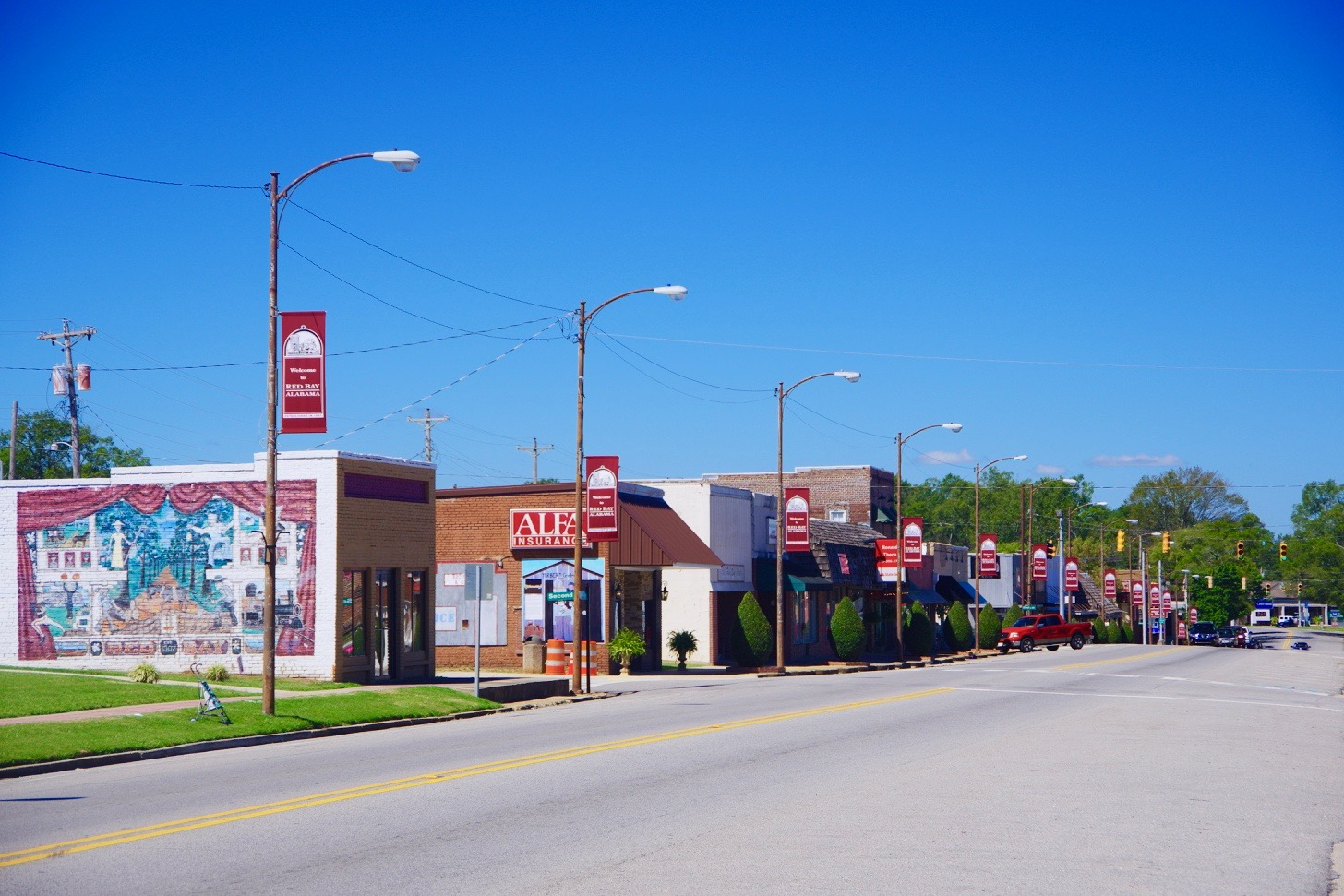 Businesses along Fourth Avenue in Red Bay, Alabama, United States.